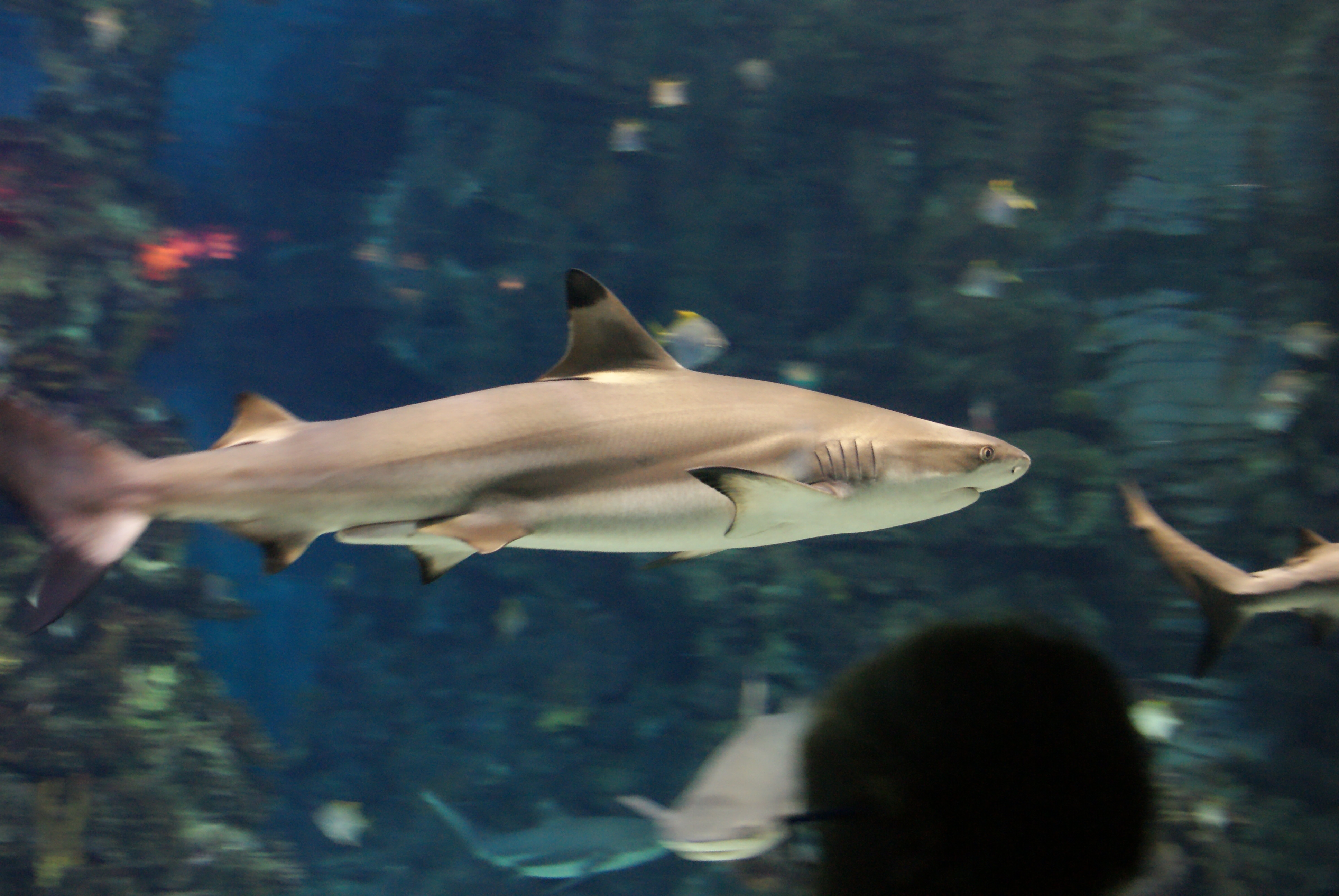 A blacktip reef shark (Carcharhinus melanopterus), at L'Aquarium, Barcelona.